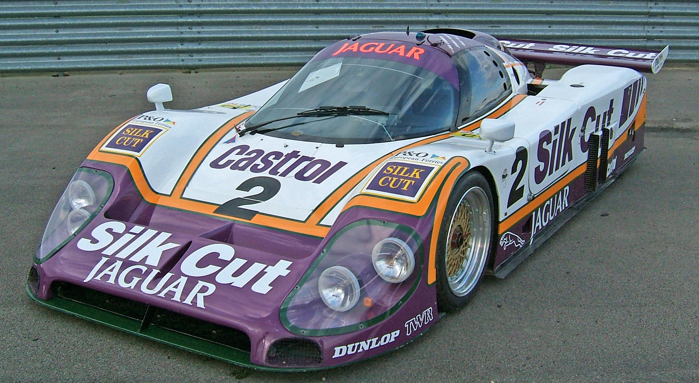 The 1988 Le Mans-winning Jaguar XJR9, photographed at the 2007 Silverstone Classic meeting, July 2007.